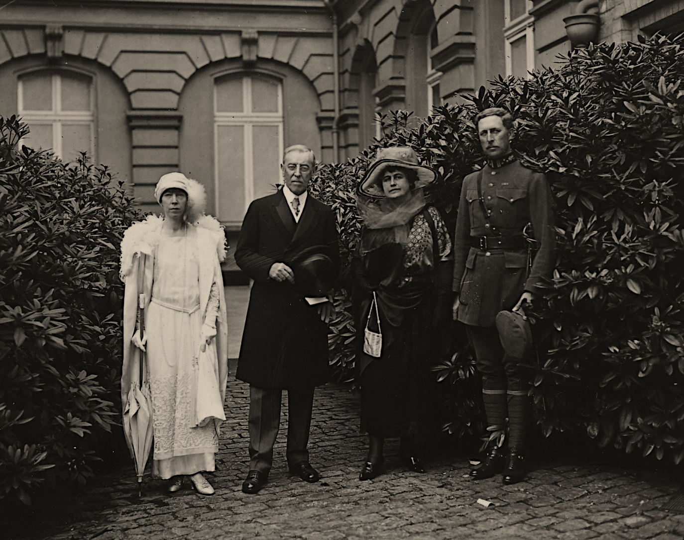 President and Mrs. Wilson photographed with the King and Queen the Amusement Garden in Brussels.